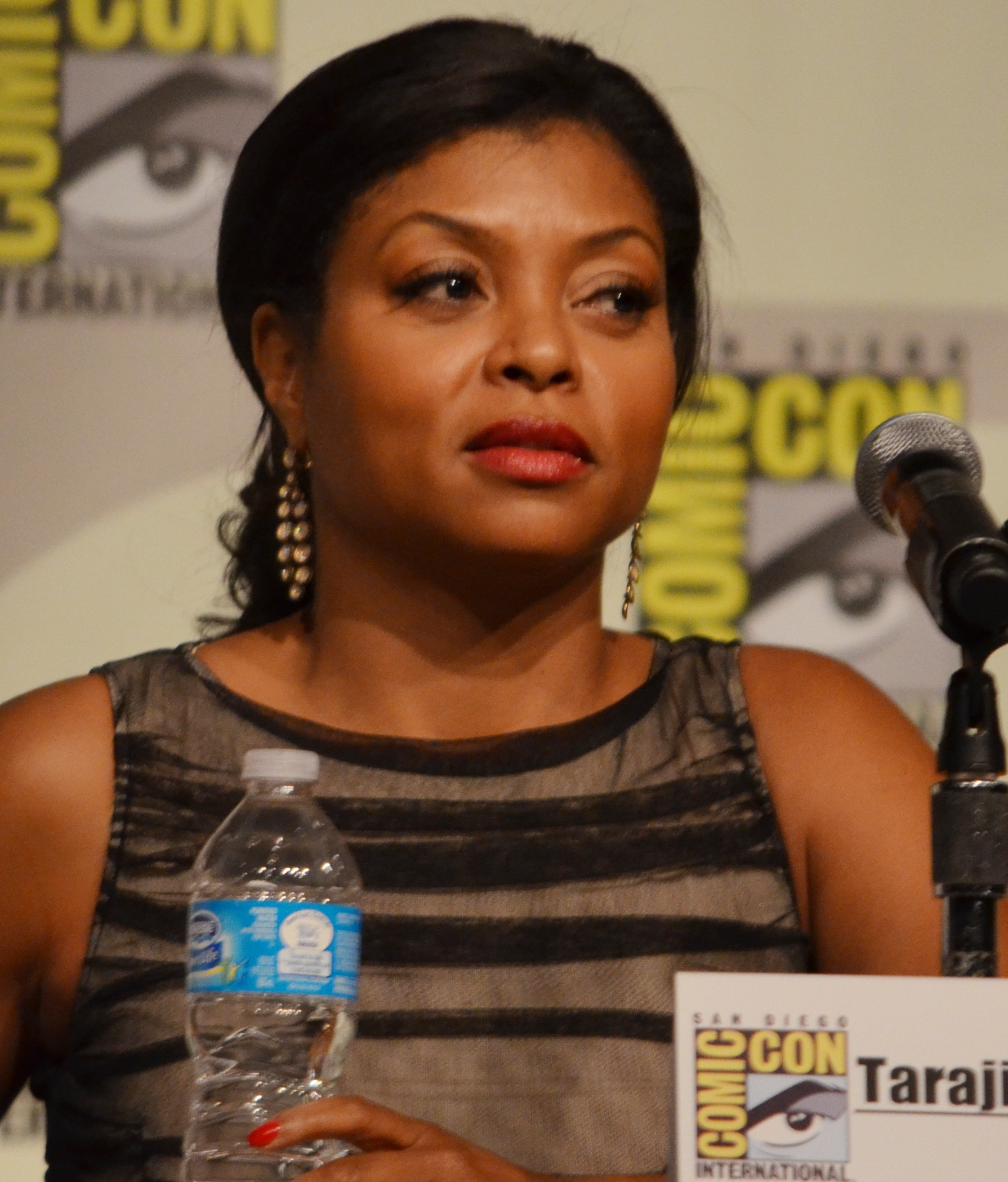 Taraji P. Henson at the 2012 comic con san diego